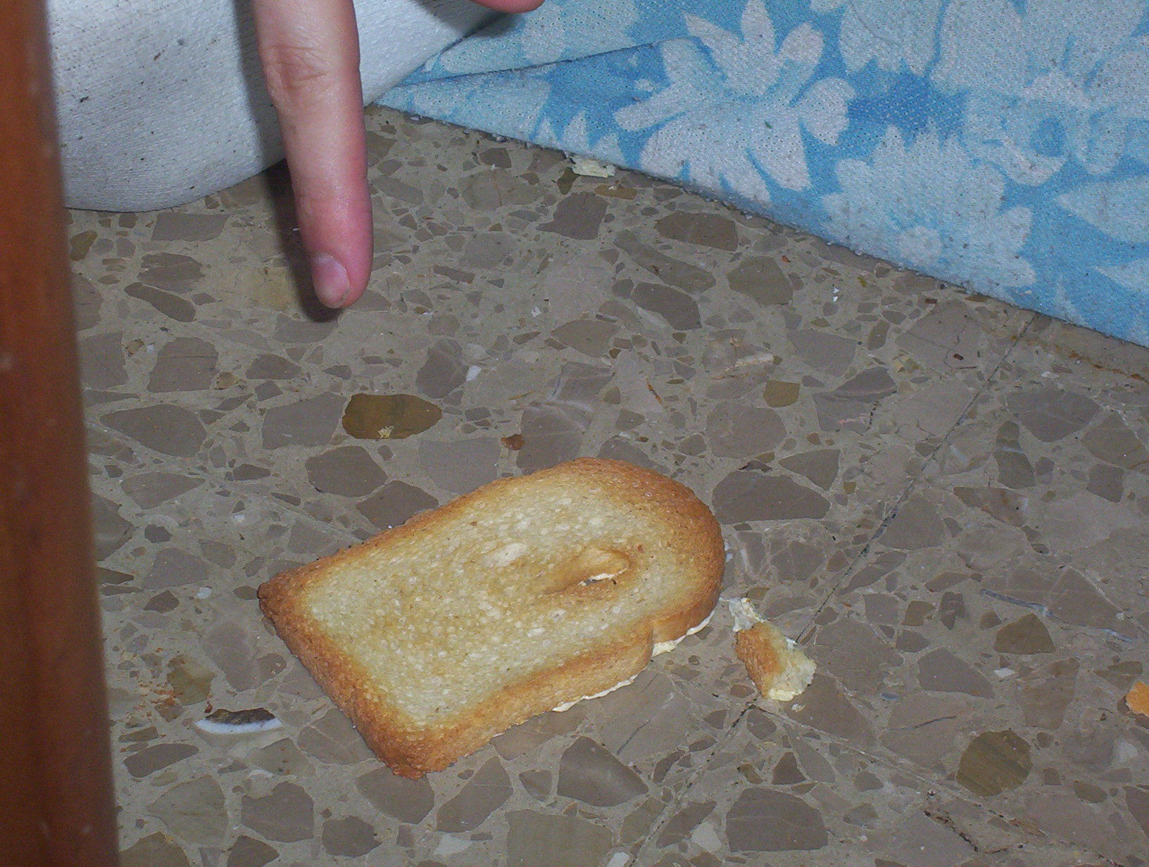 Murphy's law in action.